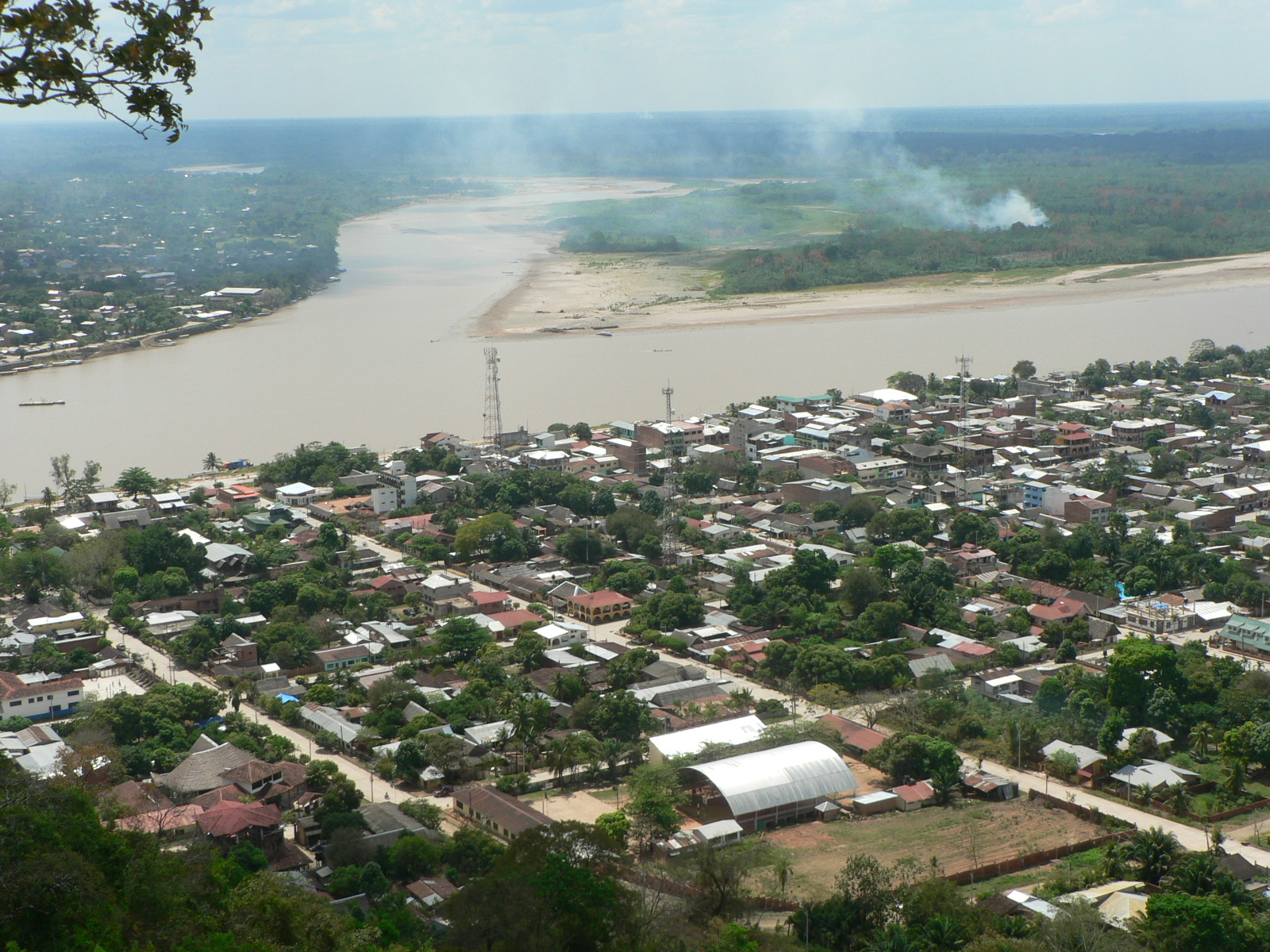 View of Rurrenabaque, Beni, Bolivia and the rio Beni from a nearby hill.